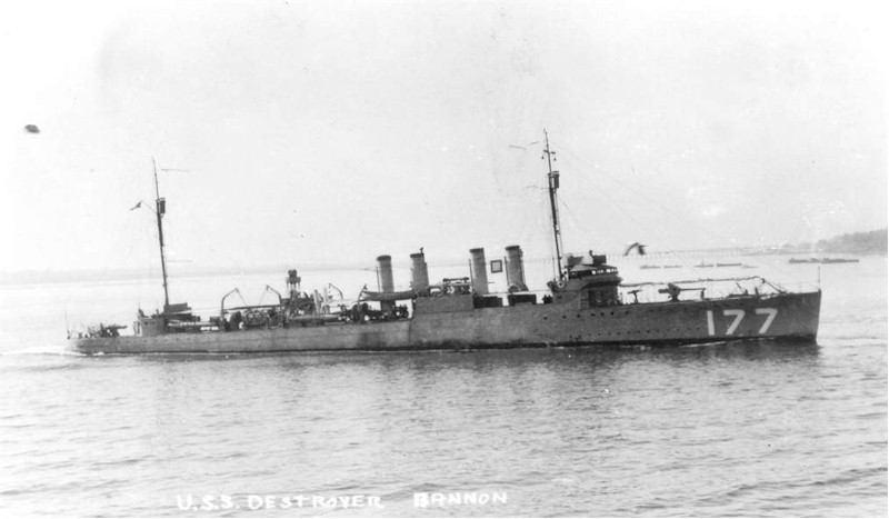 The U.S. Navy destroyer USS O'Bannon (DD-177) underway, circa in 1920.